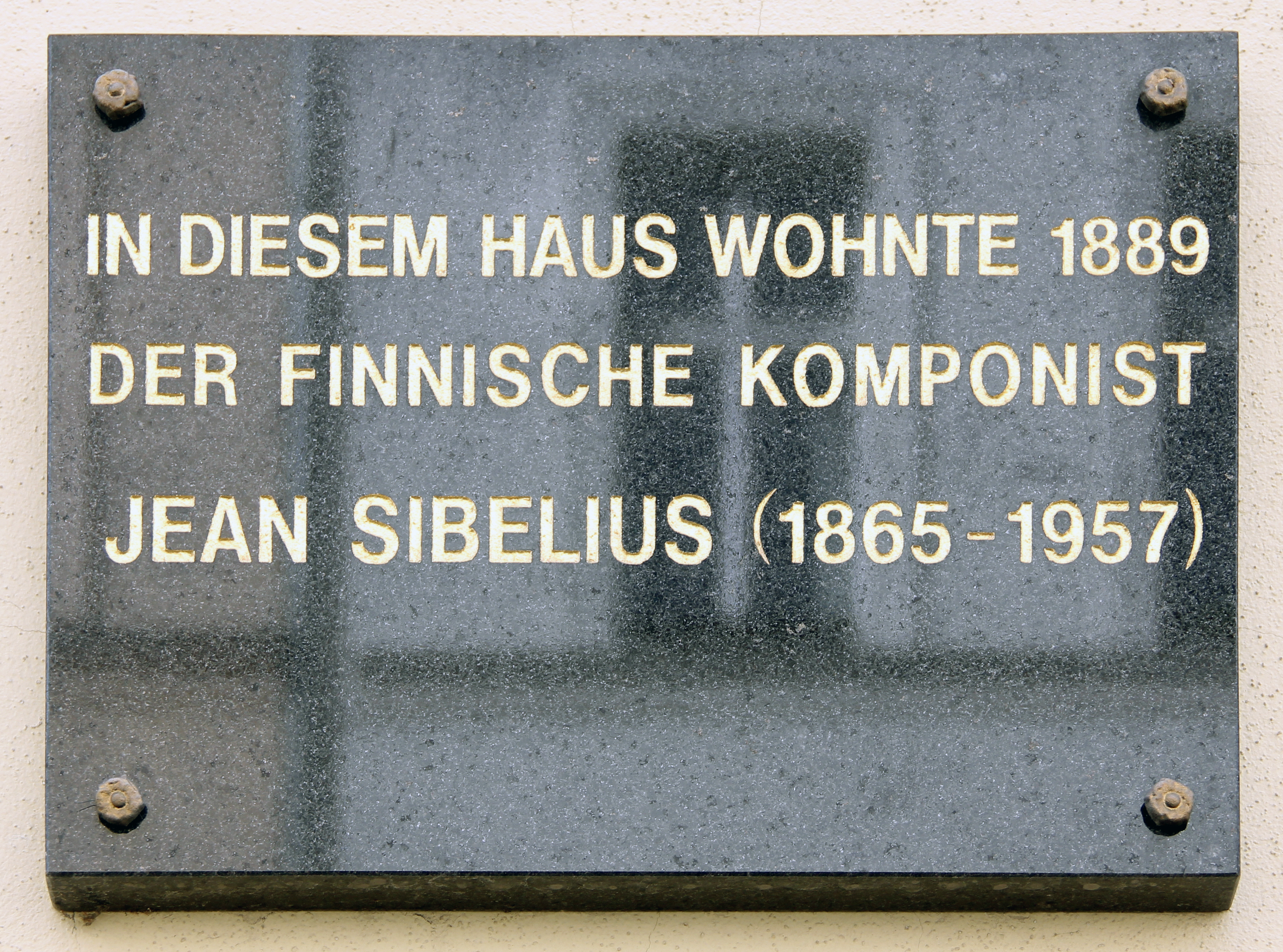 Memorial plaque, Jean Sibelius, Marienstraße 4, Berlin-Mitte, Germany. Translation: The Finnish composer Jean Sibelius (1865–1957) lived in this house in 1889.